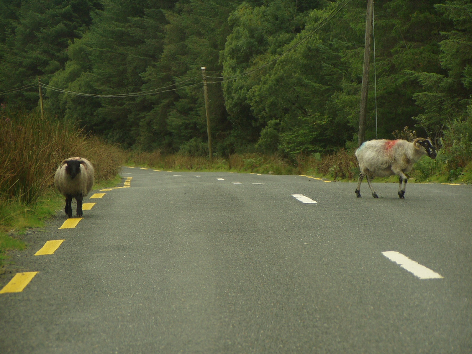 Sheep on an Irish road